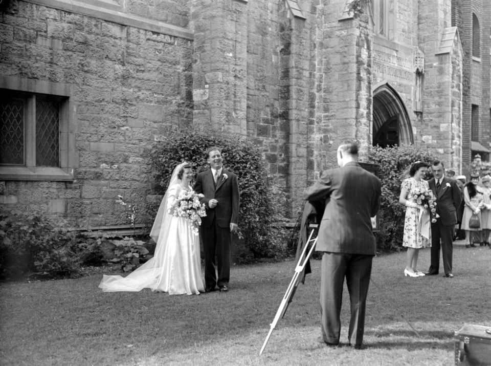 We see the bride, Louise Fairbairn and groom. A photographer whose camera is mounted on a tripod, photography outside the church Westmount Park United Church where their marriage took place.